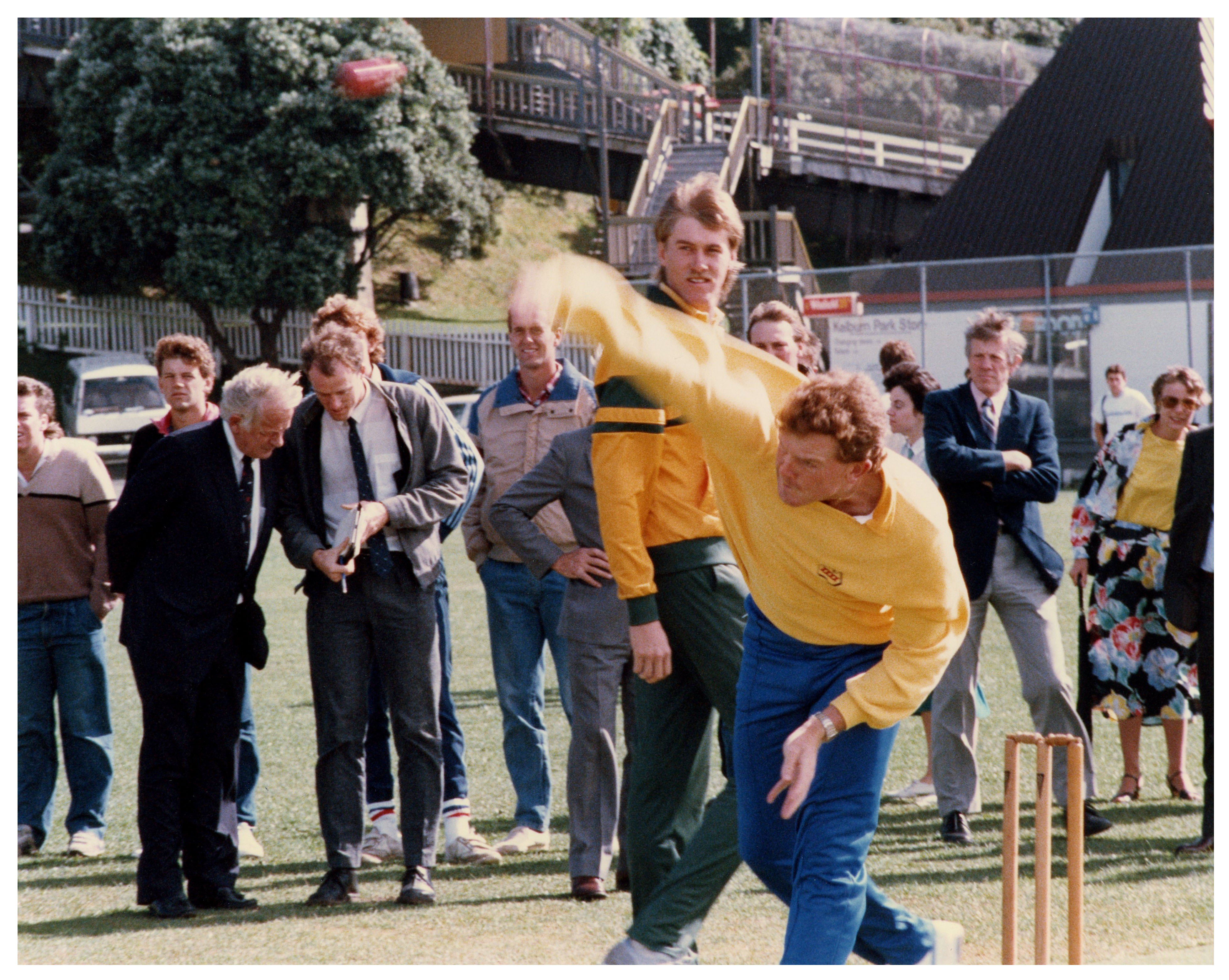 In 1986 a group of Australian Cricket stars visited Victoria University in Wellington to promote the installation of an artificial cricket pitch at Kelburn Park. The park is owned by Wellington City Council but has been the home of Victoria University Cricket Club since 1906. The stars were Allan Border, Craig McDermott, Bruce Reid and Geoff Marsh. We assume that the pitch was sponsored by New Zealand Post as there are images of the pitch with the New Zealand Post logo applied. Pictured here are bowlers Bruce Reid and Craig McDermott. Bruce Reid played 27 tests and 61 One Day Internationals for Australia. His last appearance was in 1992. Craig McDermott played 71 tests and 138 One Day Internationals for Australia. His last appearance was in 1996. Since retiring from playing he has had stints as an international coach and has set up an academy in Brisbane. This image is from a series of photos transferred by New Zealand Post to Archives New Zealand. The collection was part of the Post Office Museum and Archives. This image and other items from the series can be seen in the Wellington Reading Room of Archives New Zealand. For further enquiries please File Reference: AAME 8106 W5603 125 11/10/111 Throughout the Cricket World Cup 2015, Archives New Zealand will be highlighting a selection of cricket related records which are found in our holdings. For further updates on our cricket posts and other streams follow us on Twitter Material from Archives New Zealand